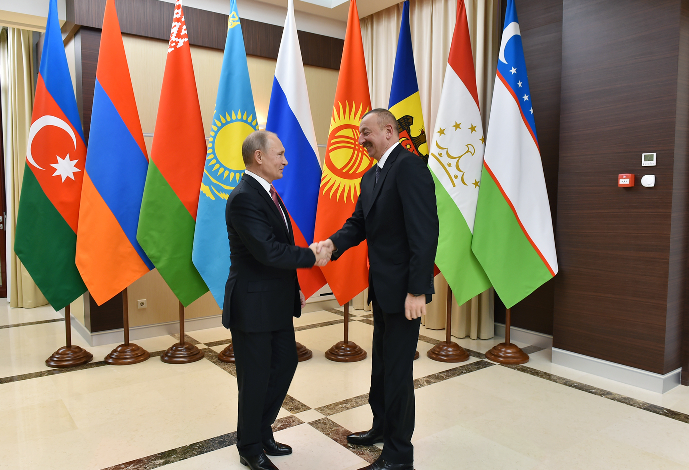 President of Azerbaijan Ilham Aliyev meets President of the Federation of Russia Vladimir Putin